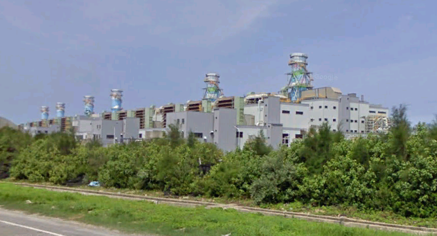 Tatan Gas-Fired Power Plant, Guanyin Township, Taoyuan County, Taiwan